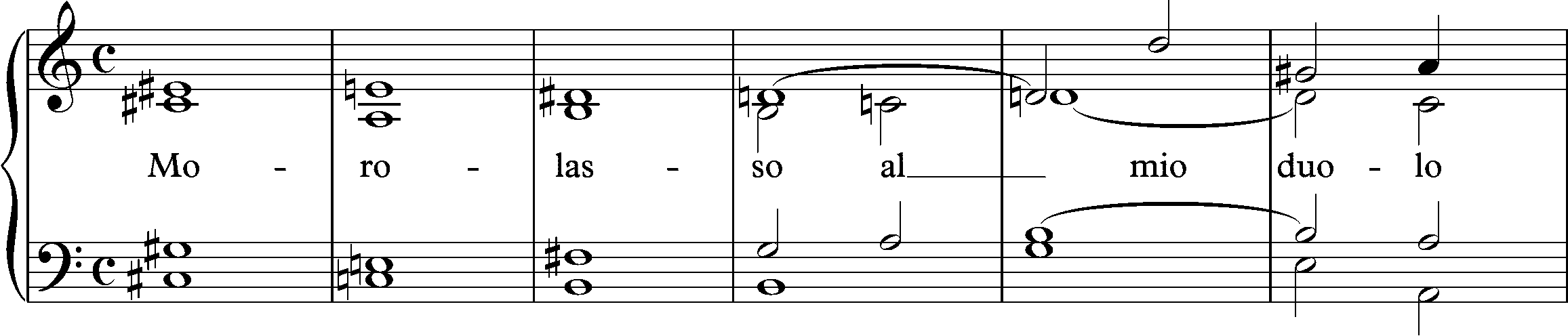 Opening bars of Gesualdo's madrical "Moro Lasso"